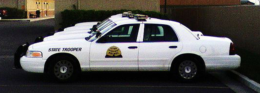 Utah Highway Patrol cruiser fleet.